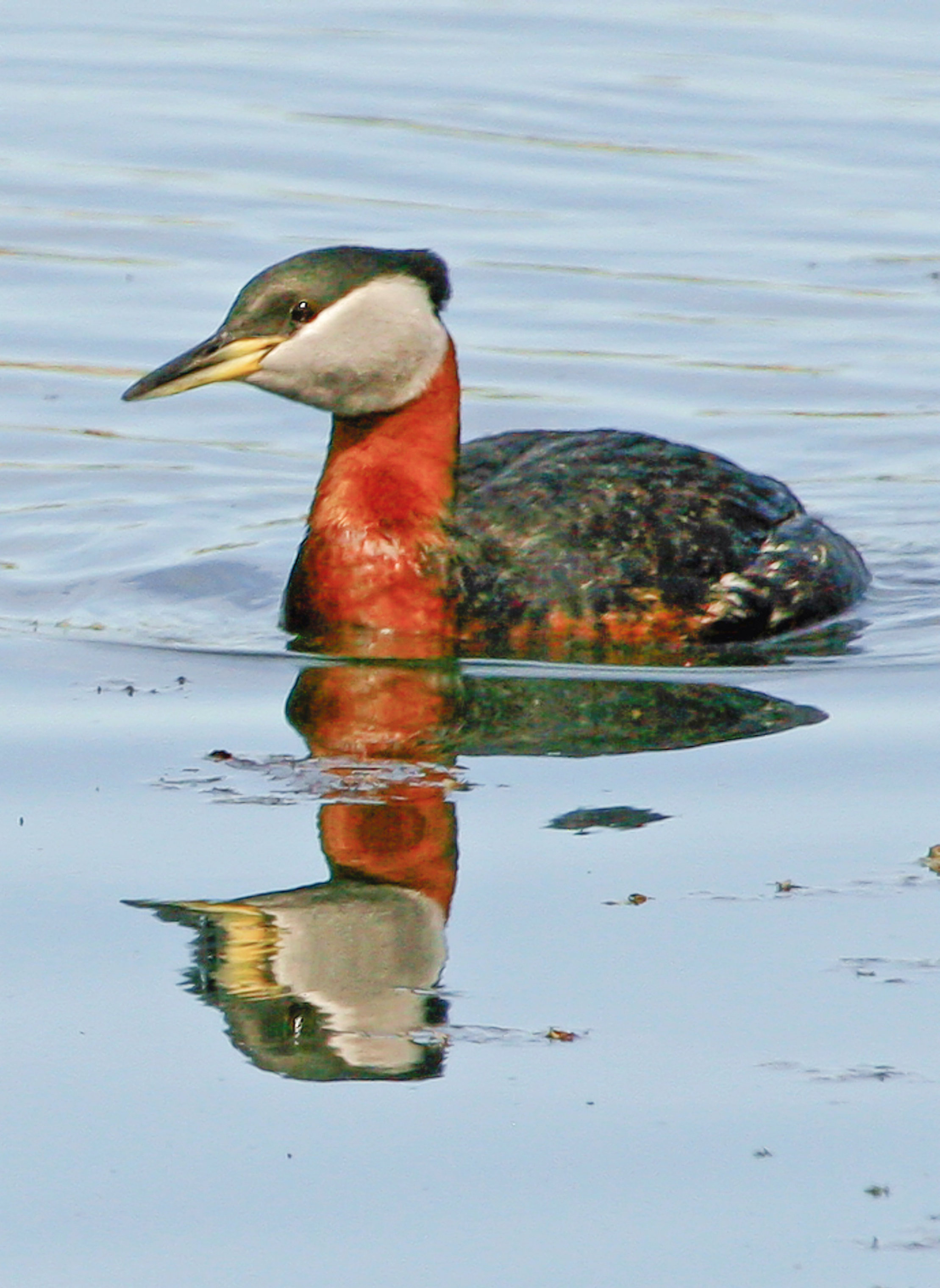 Red-necked Grebe Podiceps grisegena holboelii taken at the Anchorage Coastal Wildlife Refuge, Potter's Marsh, in Anchorage.